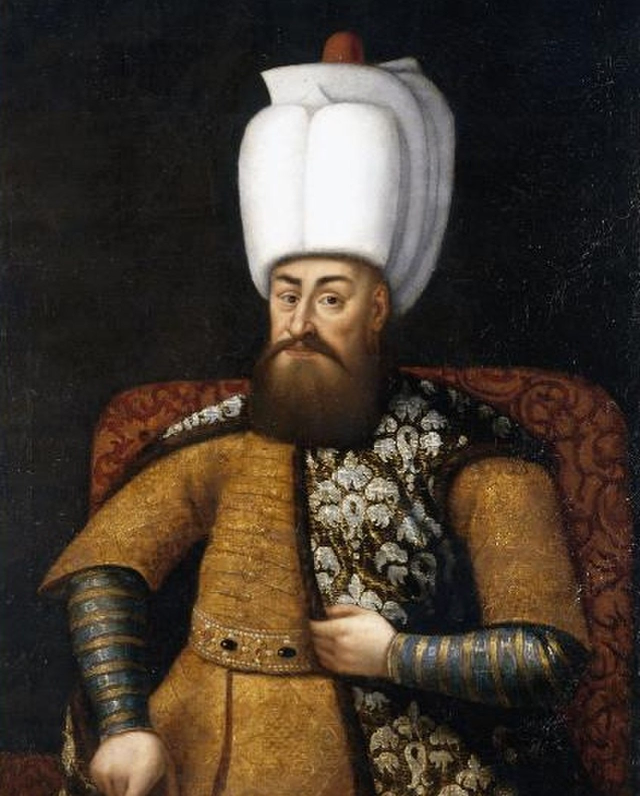 A life-size portrait of Sultan Murad III (1574-1595), attributed to a Spanish artist, 17th century